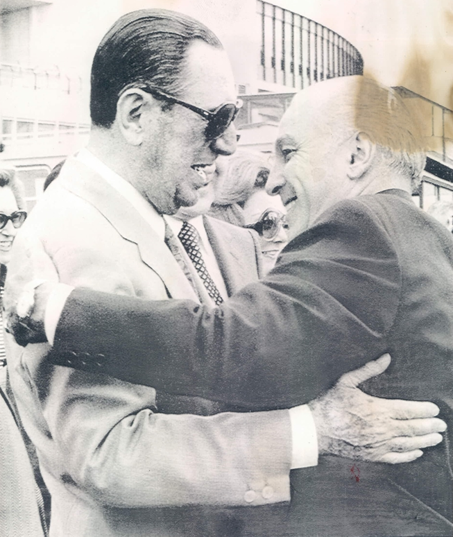 Juan Perón and José López Rega embrace one another in Madrid.